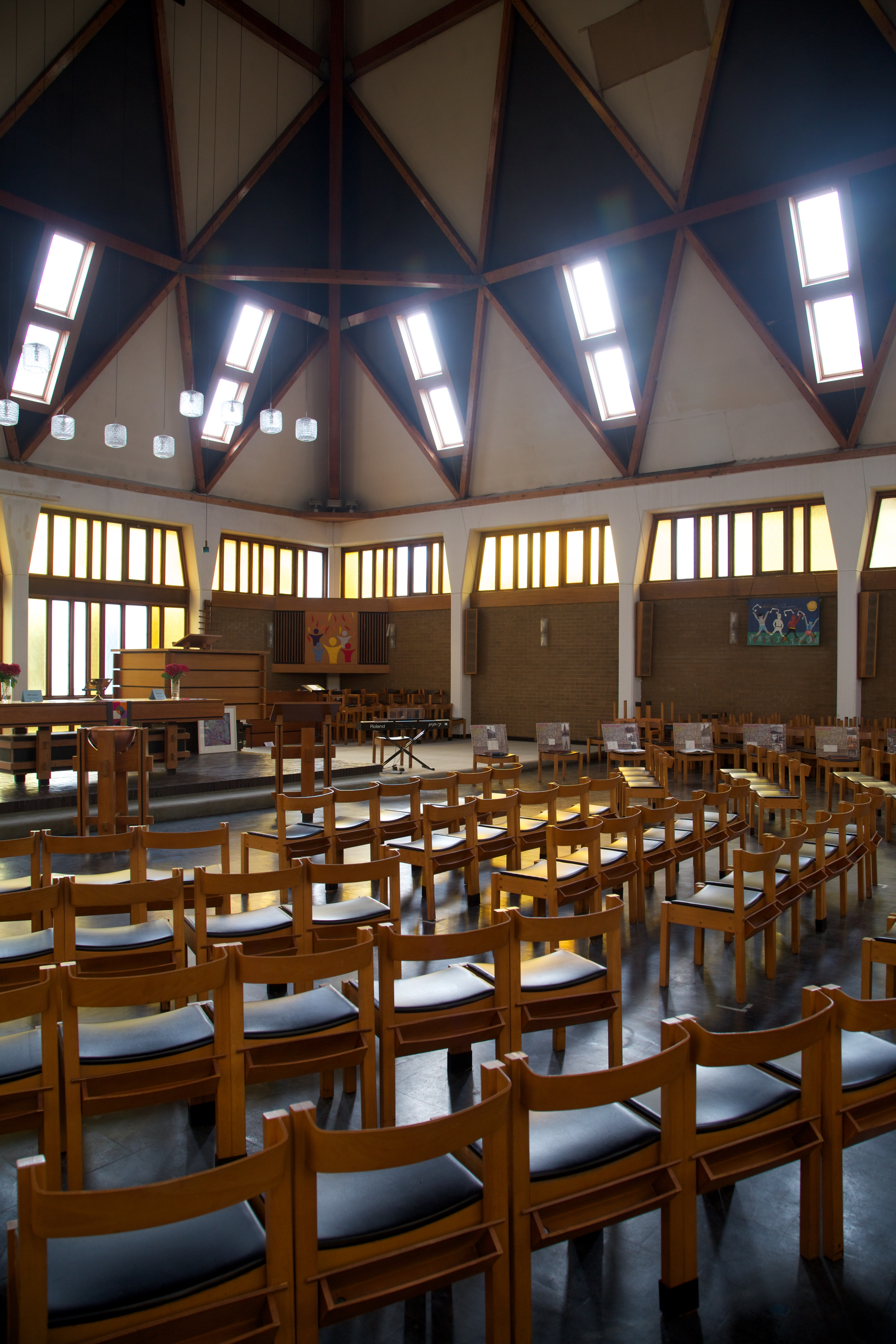 Anderston Kelvingrove Parish Church (church Of Scotland), 759 Argyle Street, Little Street, Grace Street, Glasgow Wikidata has entry Q17813808 with data related to this item.